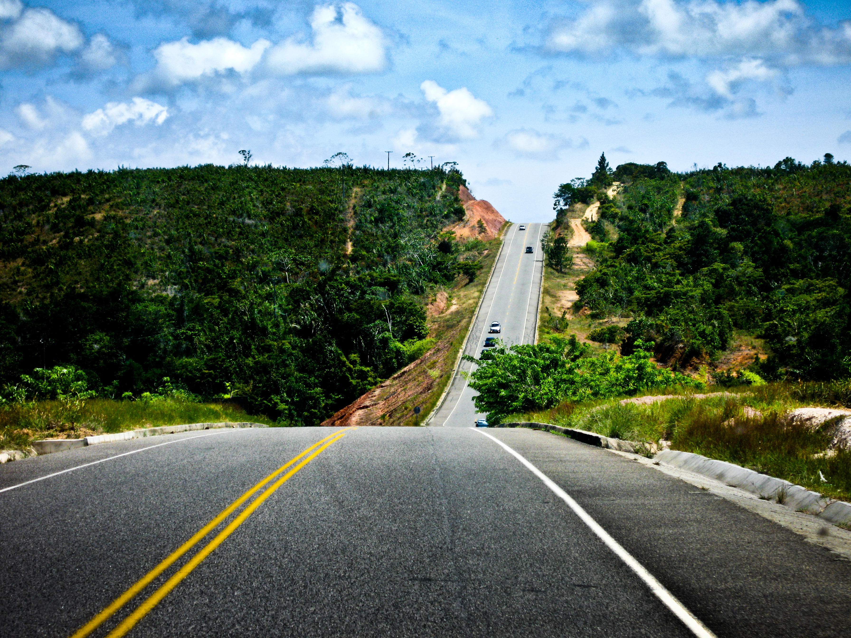 Going to Mangue Seco!!